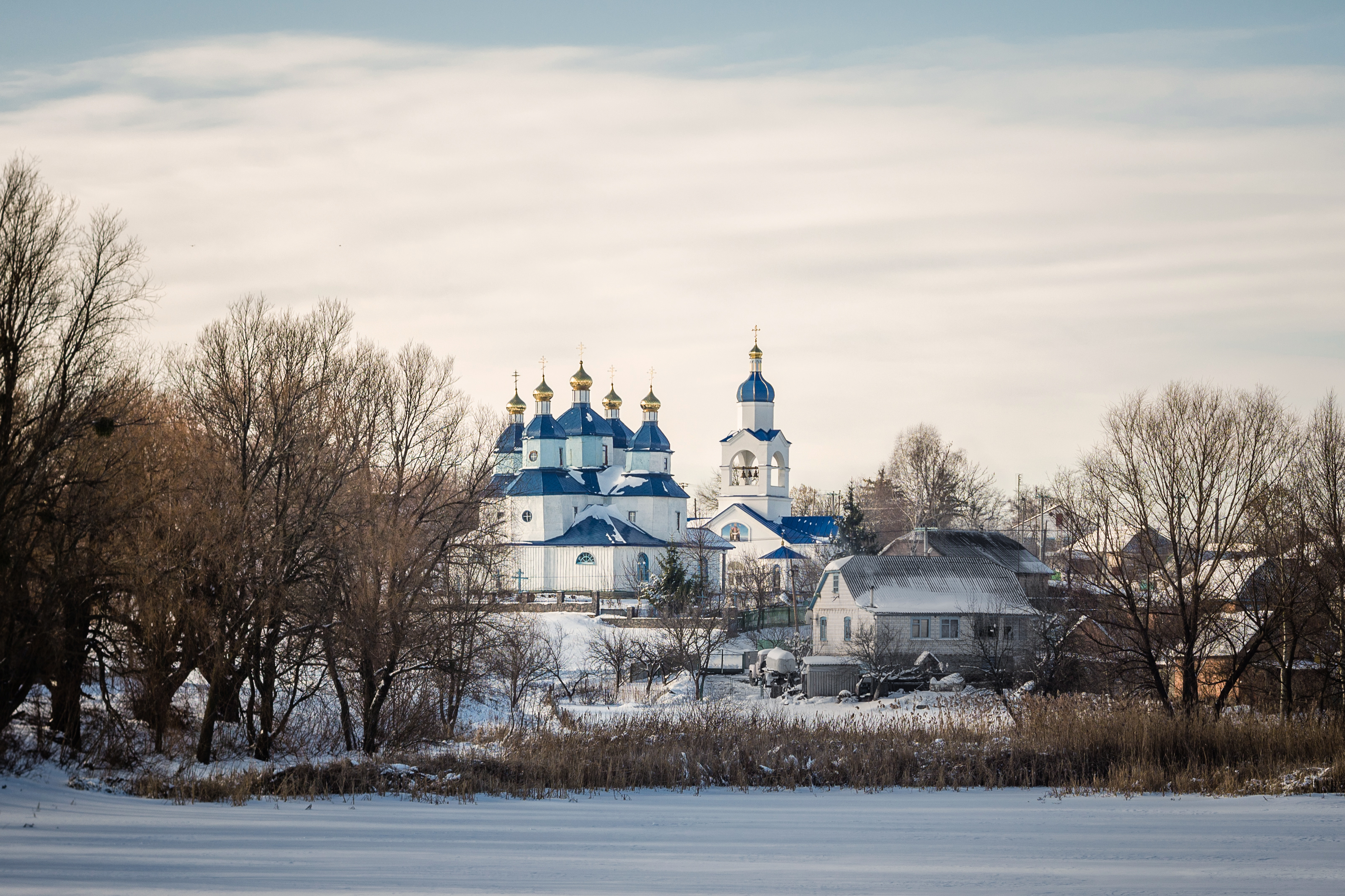 St. Michael (Mikhailovskaya) Church in Dashev, Ukraine. It was built without nails only of wood in 1764. The builders of this church was Cossacks.